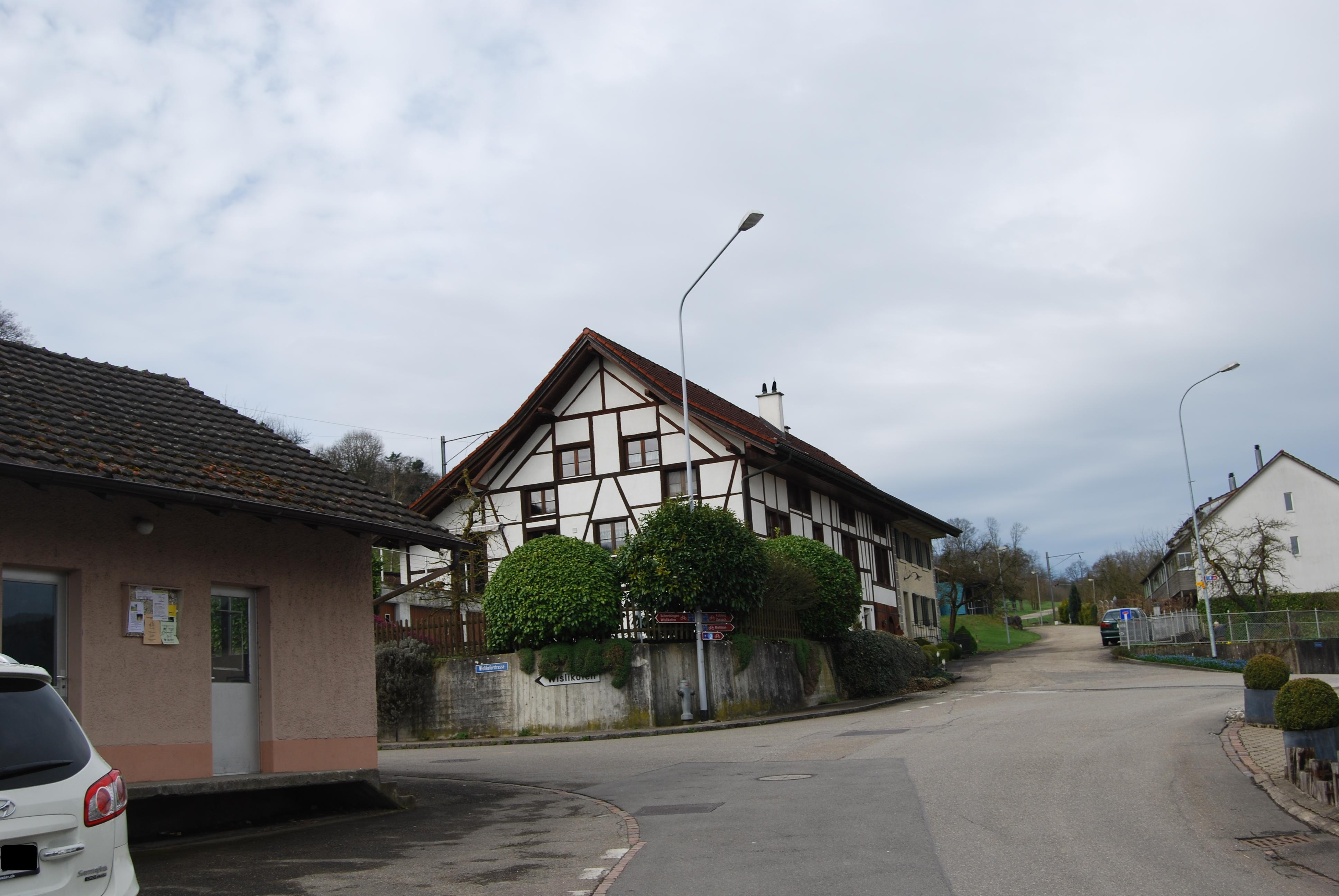 Rümikon, canton of Aargau, SwitzerlandEsperanto: Rümikon, Kantono Argovio, Svislando